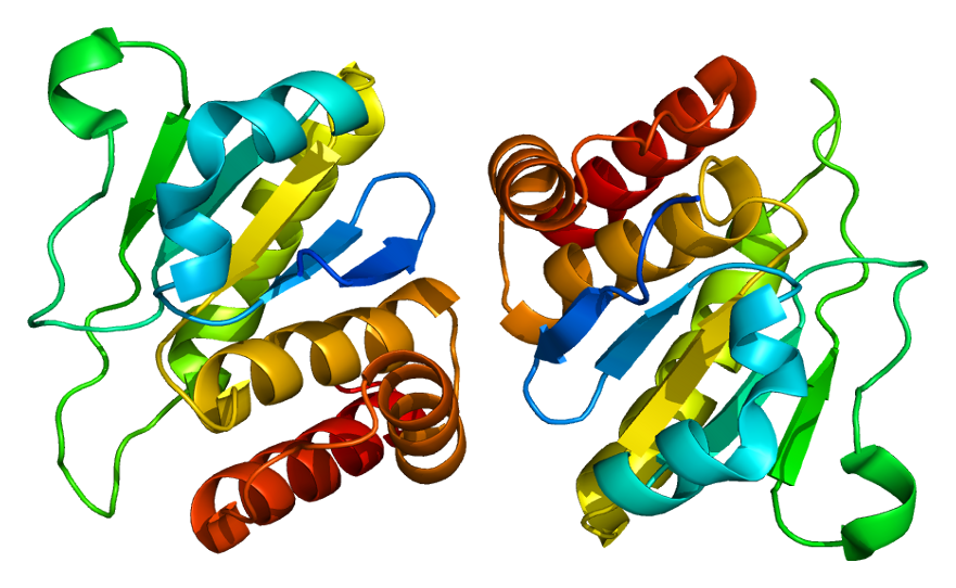 Structure of the DUSP10 protein. Based on PyMOL rendering of PDB 1zzw.